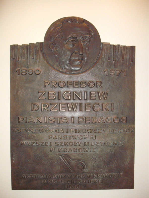 Zbigniew Drzewiecki's memorial plaque in the hall of the Academy of Music in Kraków